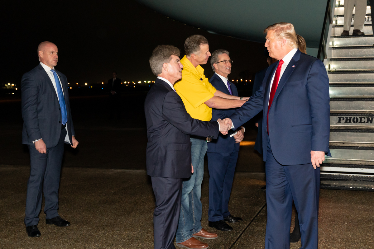 President Donald J. Trump disembarks Air Force One at Louis Armstrong New Orleans International Airport in New Orleans Monday, Jan. 13, 2020, and is greeted by Louisiana State Representative Ray Garofalo. (Official White House Photo by Shealah Craighead)